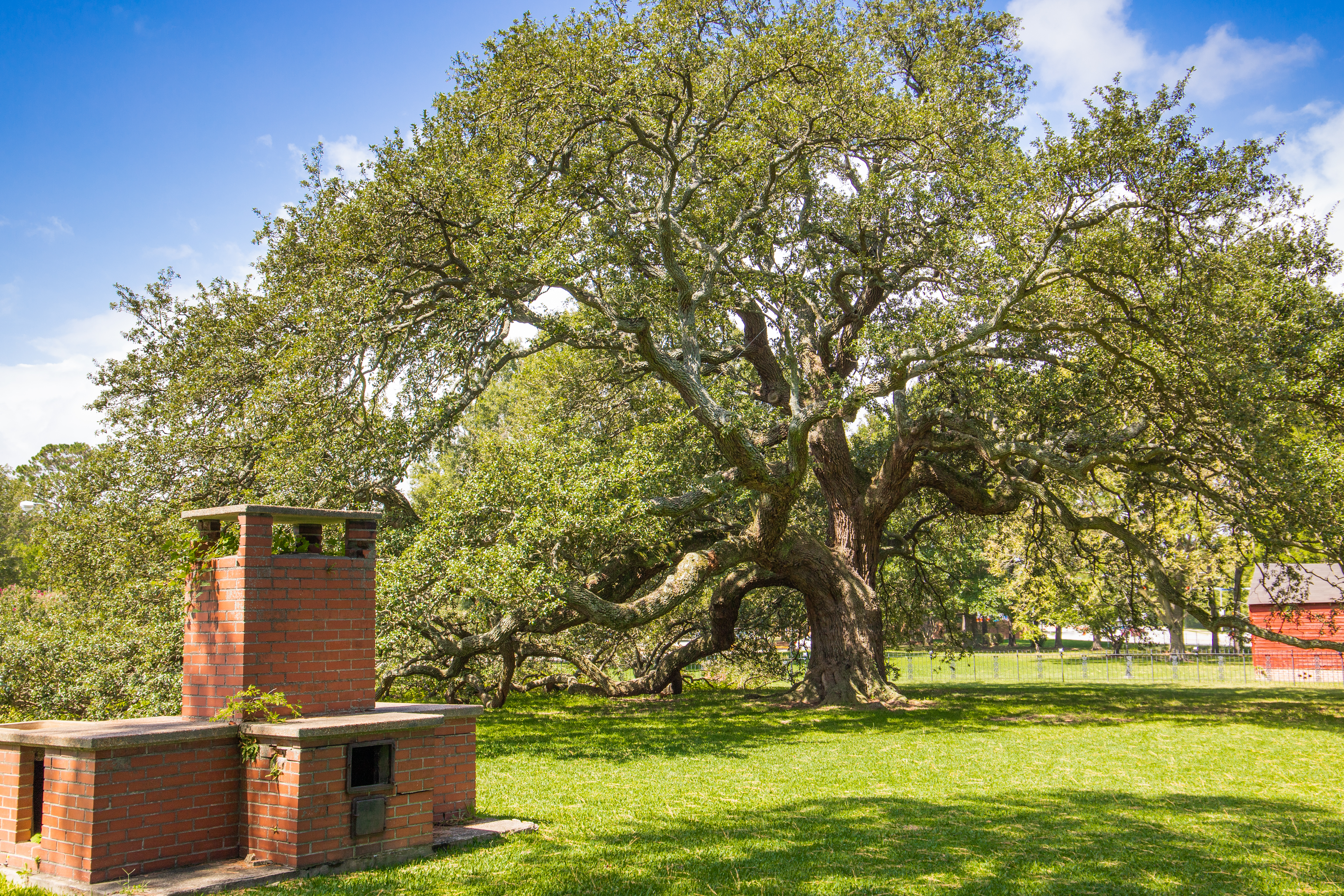 A photograph of Emancipation Oak, a historic Southern Live Oak on the campus of Hampton University.